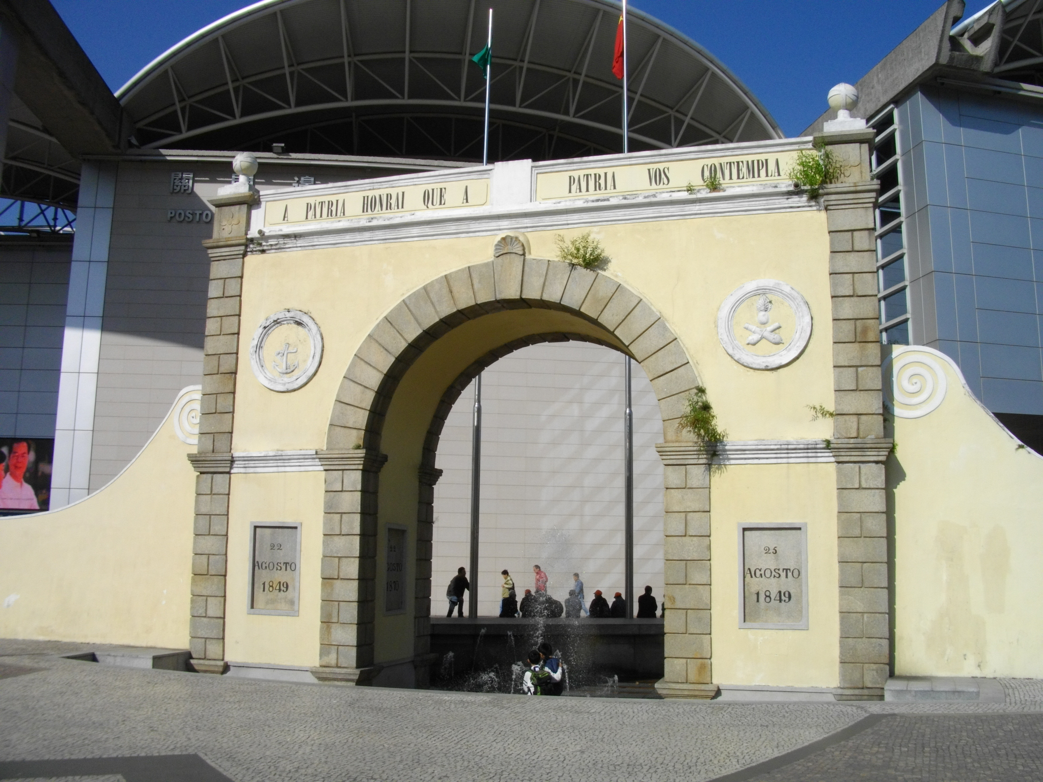 Portas do Cerco (Macau)